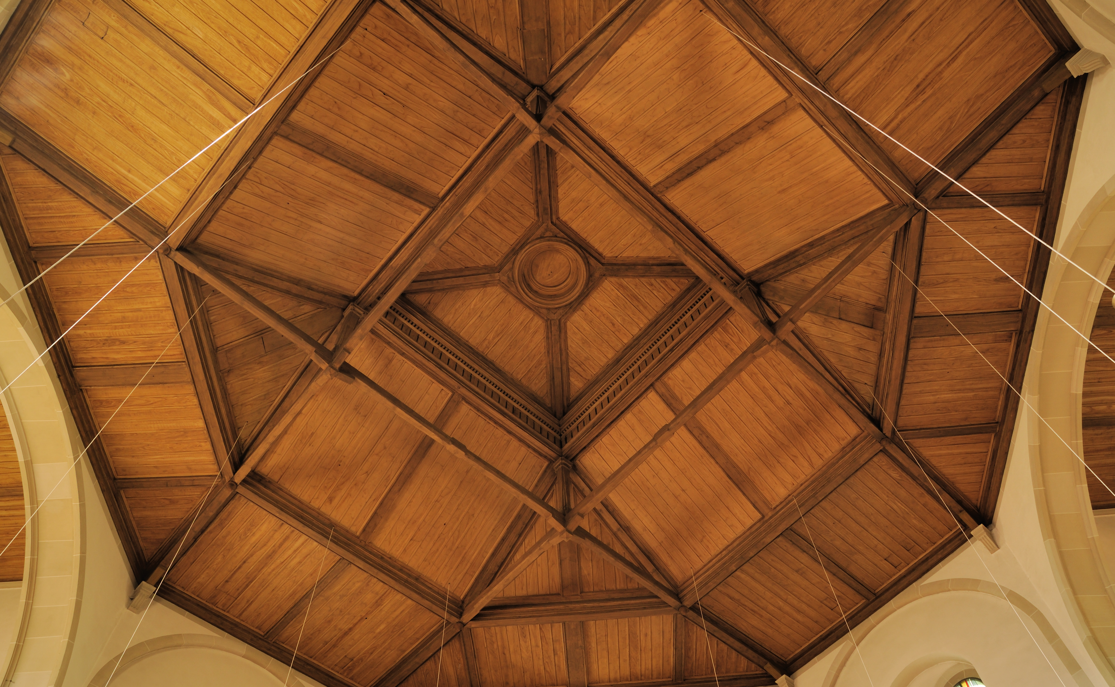 Todtnau: Saint John the Baptist Church